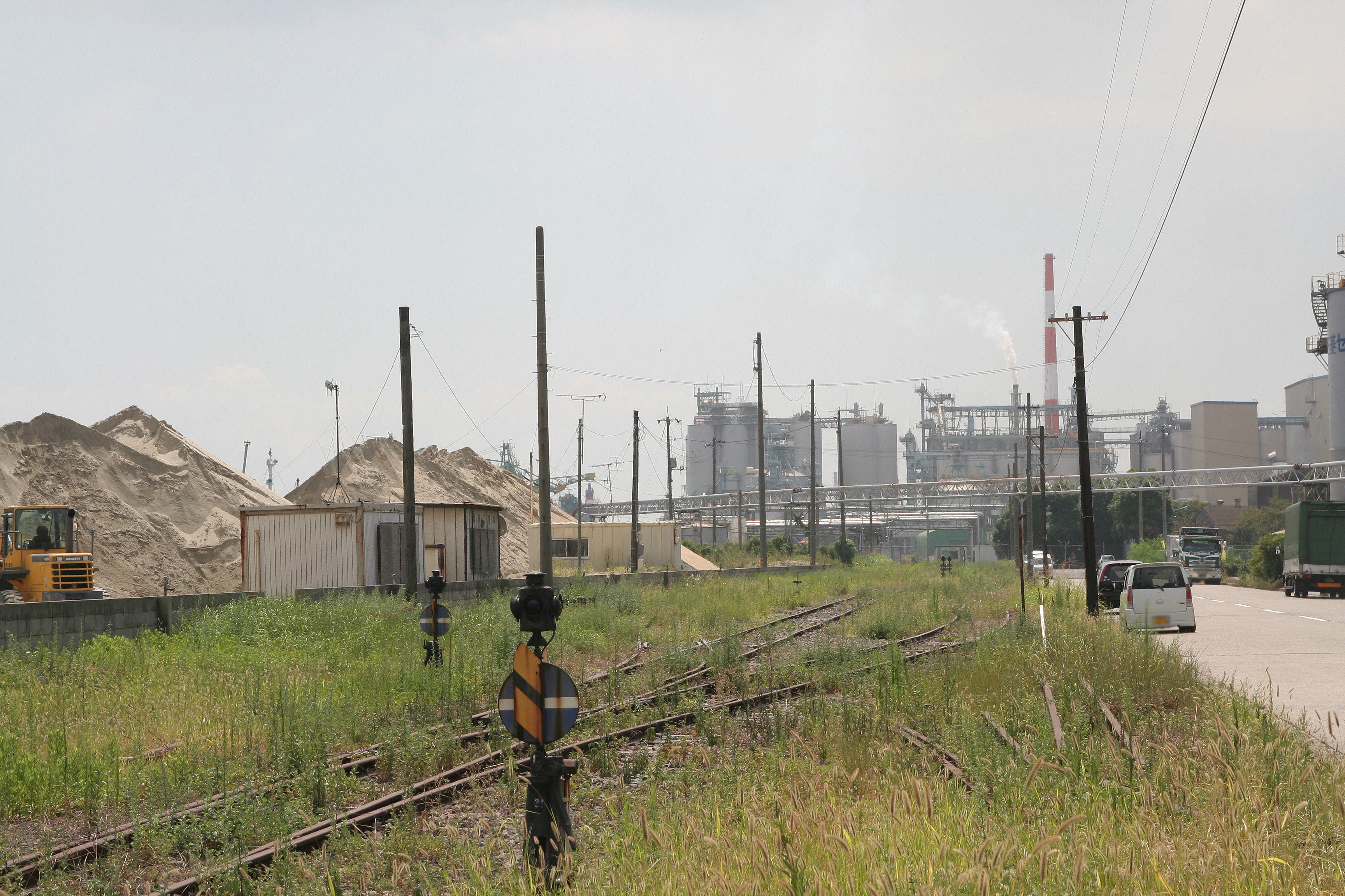 Mizushima Rinkai Railway Nishi-futoh Line Nishi-futoh station enclosure